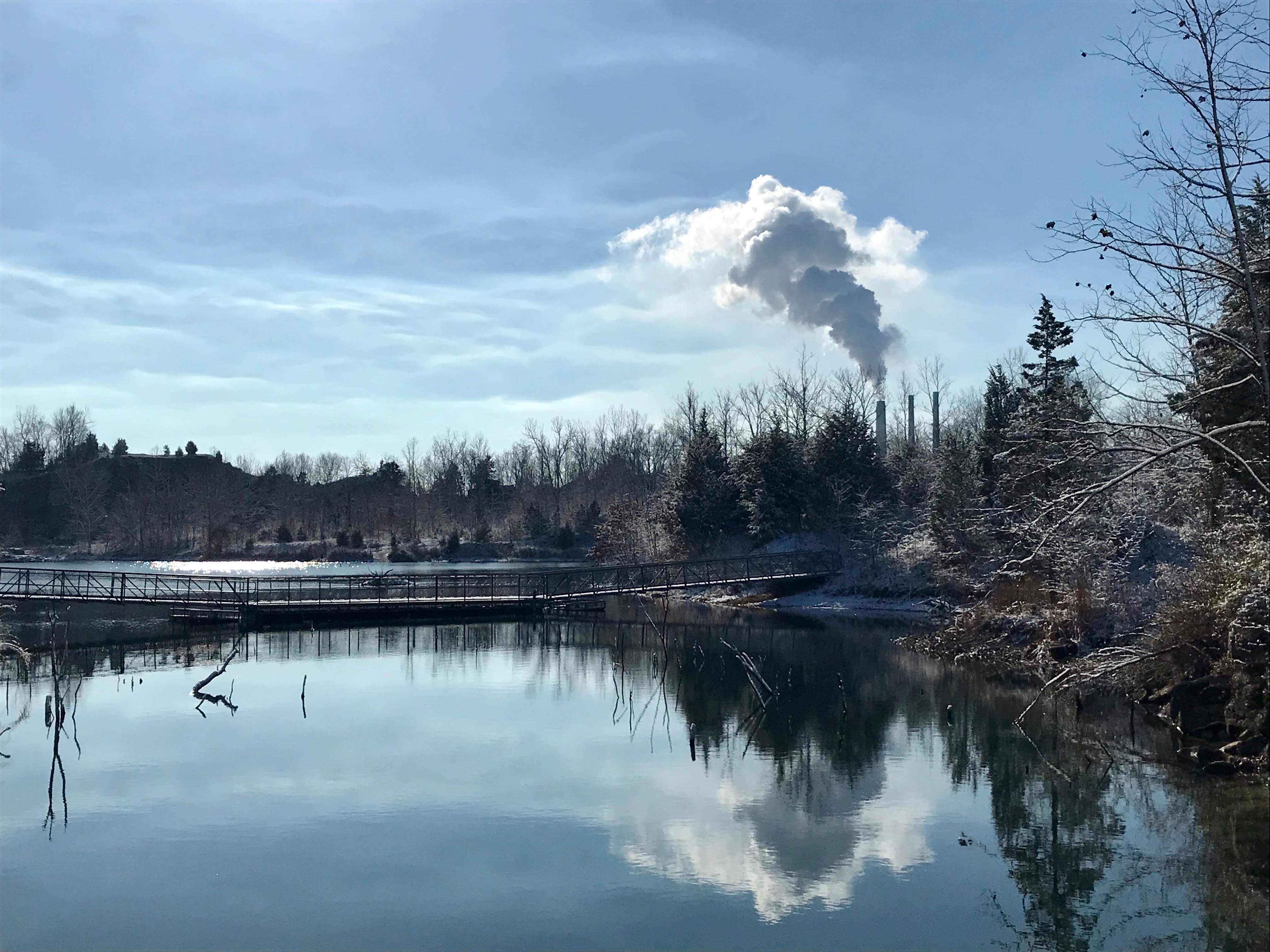 This is the Klondike lake in winter.